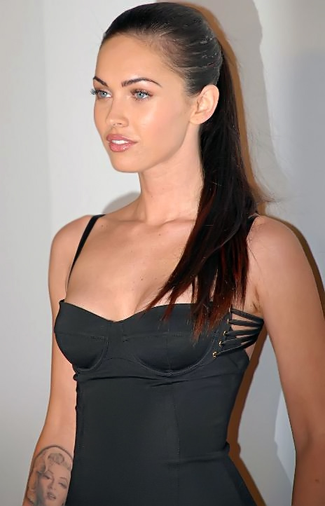 Megan Fox at Hollywood Life Magazine’s 7th Annual Breakthrough Awards